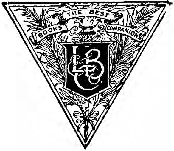 Illustration from The Indian Dispossessed by Seth K. Humphrey, 1906.